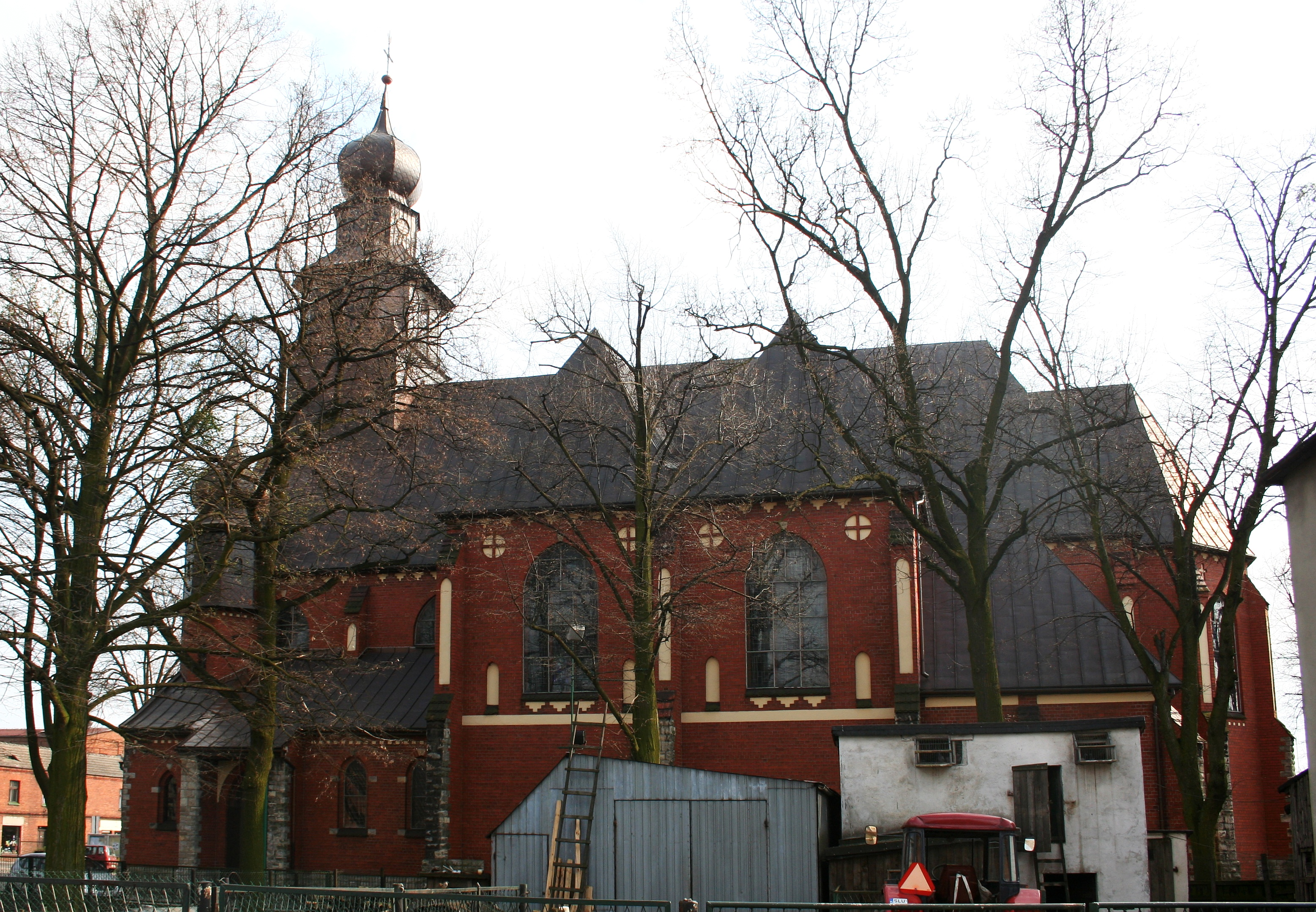 church of the Sacred Heart in Koszęcin, Poland